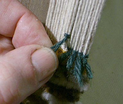 carpet knotting